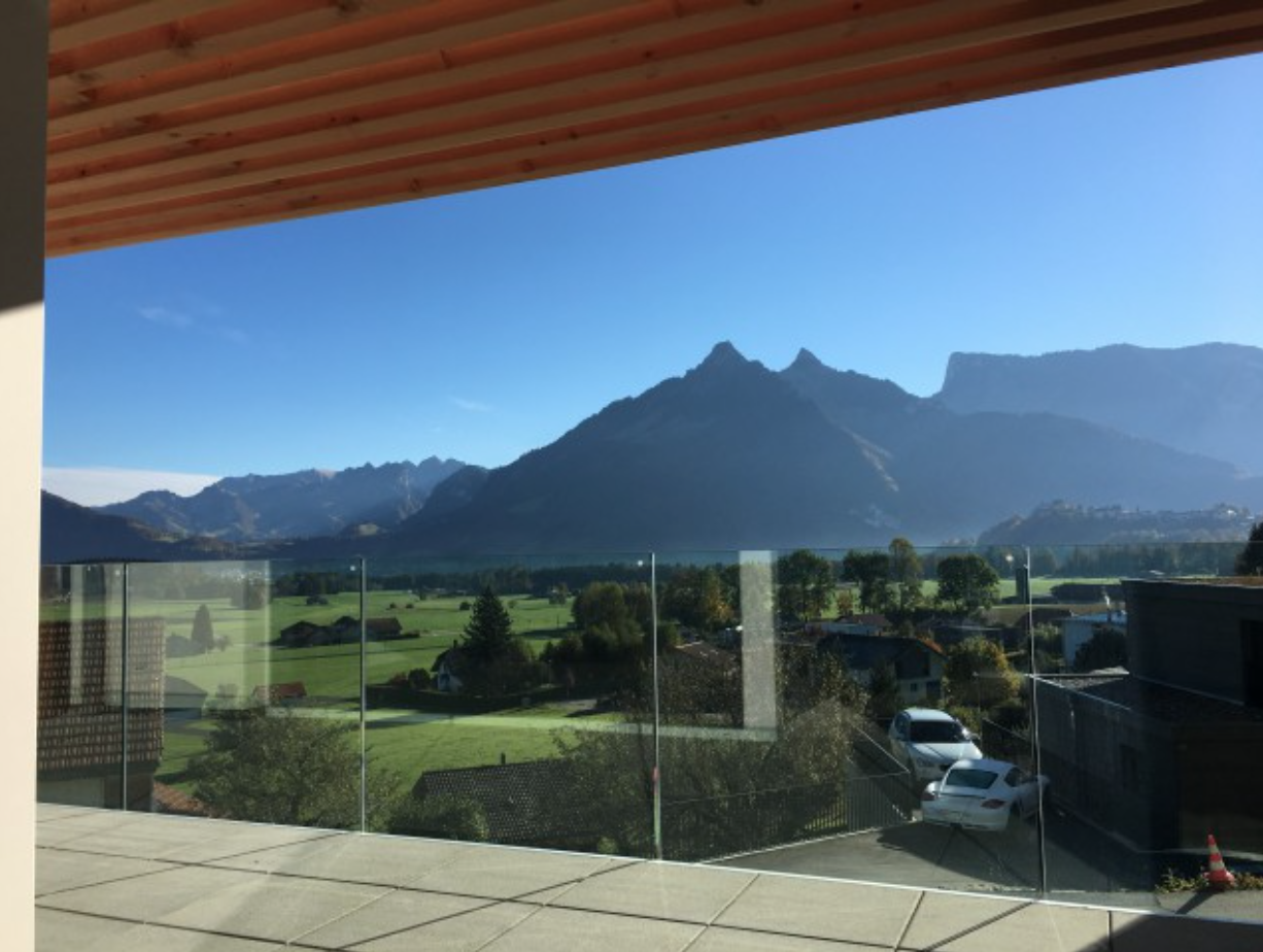 Le Pâquier Montbarry Gruyère Fribourg